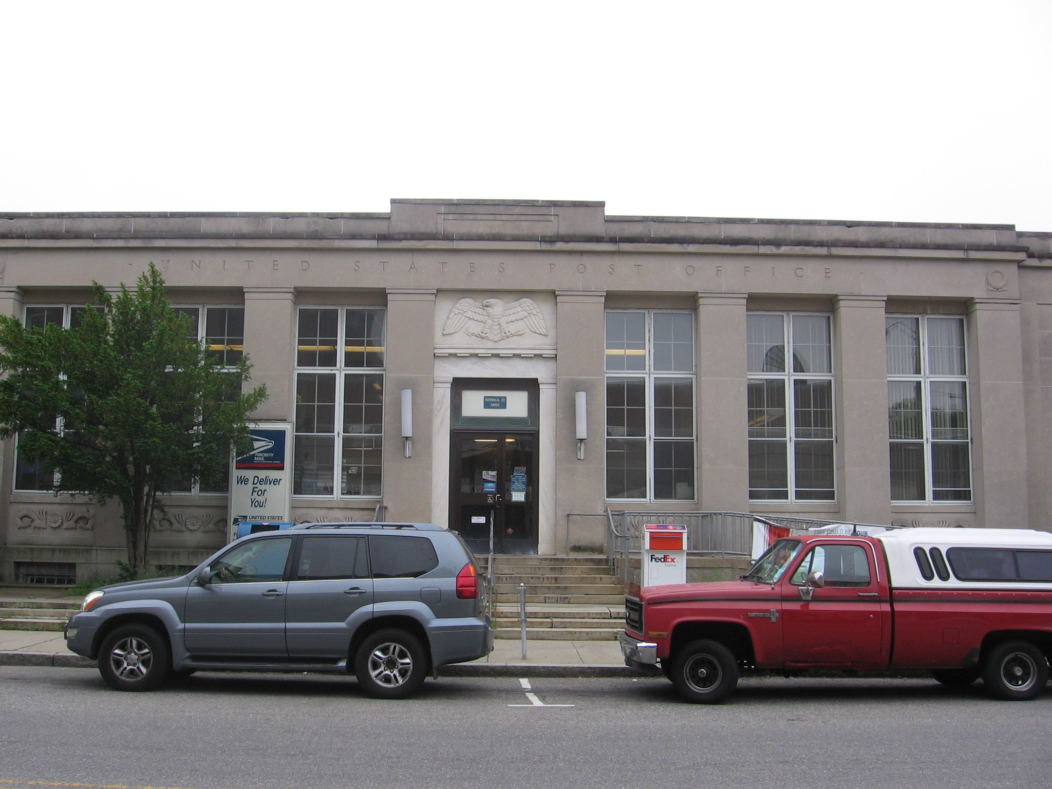 Front entrance of the South Norwalk Post Office, view looking south.